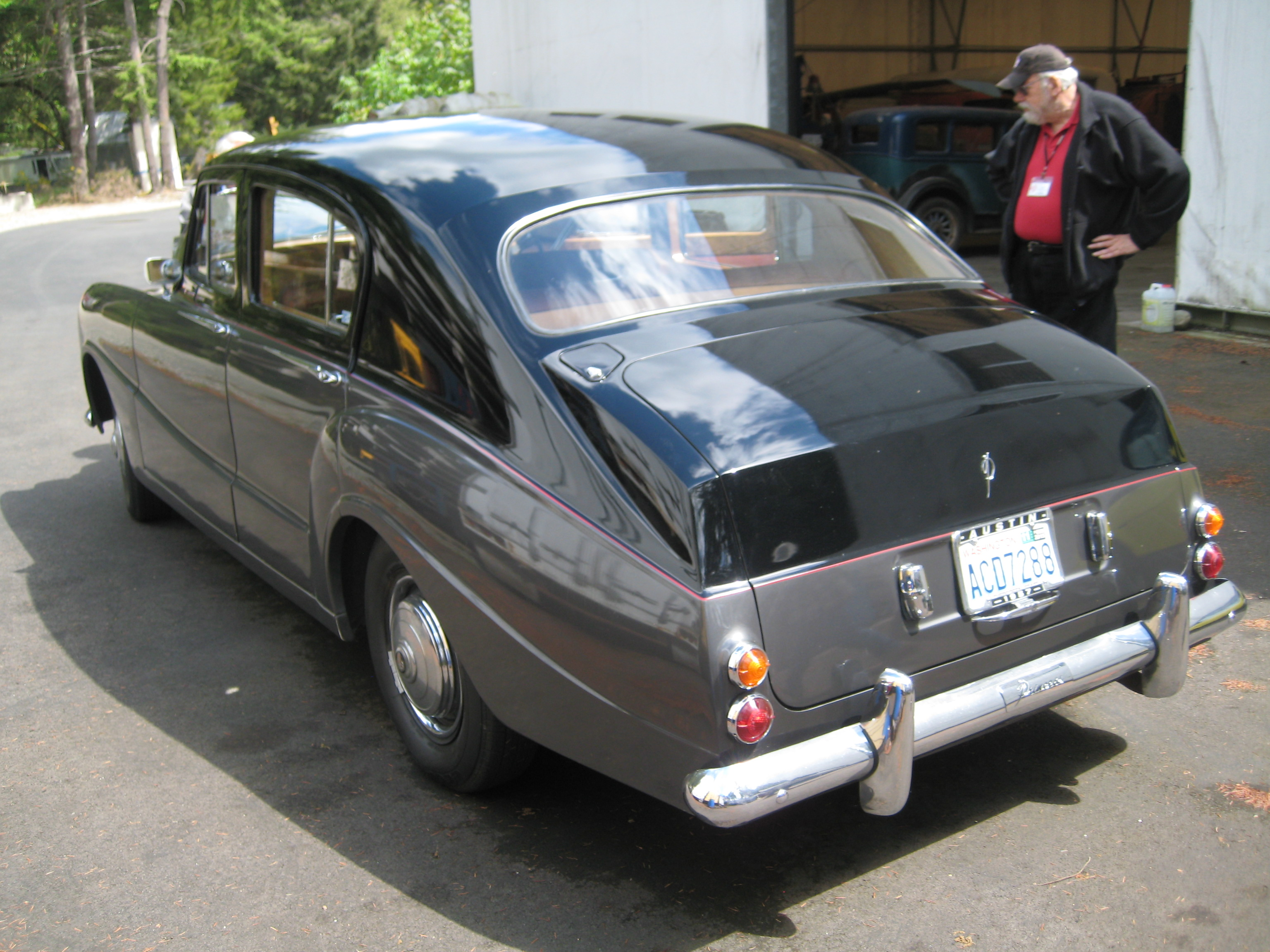 Vanden Plas Princess saloon LeMay Family Collection, Spanaway, Washington, USA